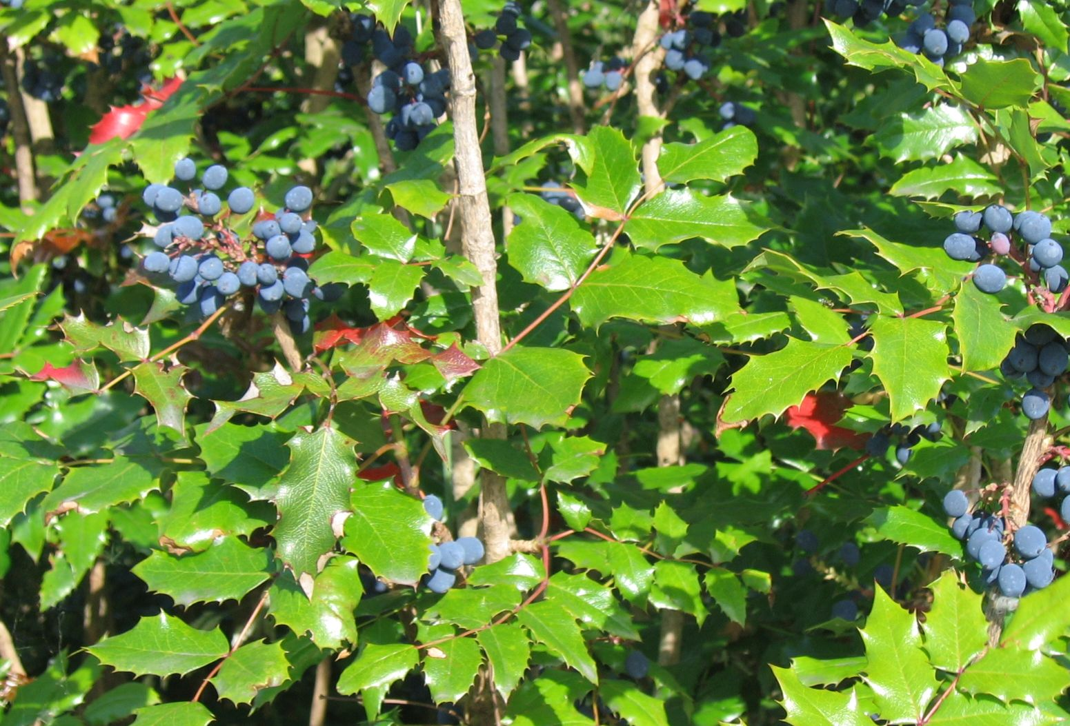 photo by Meggar